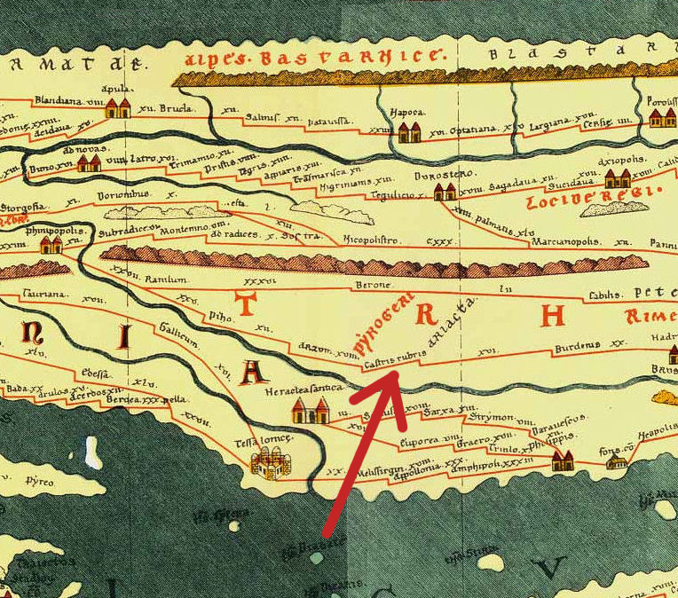 Cutout from Tabula Peutingeriana, 1-4th century CE. Facsimile edition by Conradi Millieri, 1887/1888; the red arrow shows Tabula Peutingeriana places in modern Bulgaria; on the map: Castris rubris ; in modern Bulgaria: near Izvorovo (Harmanli district)